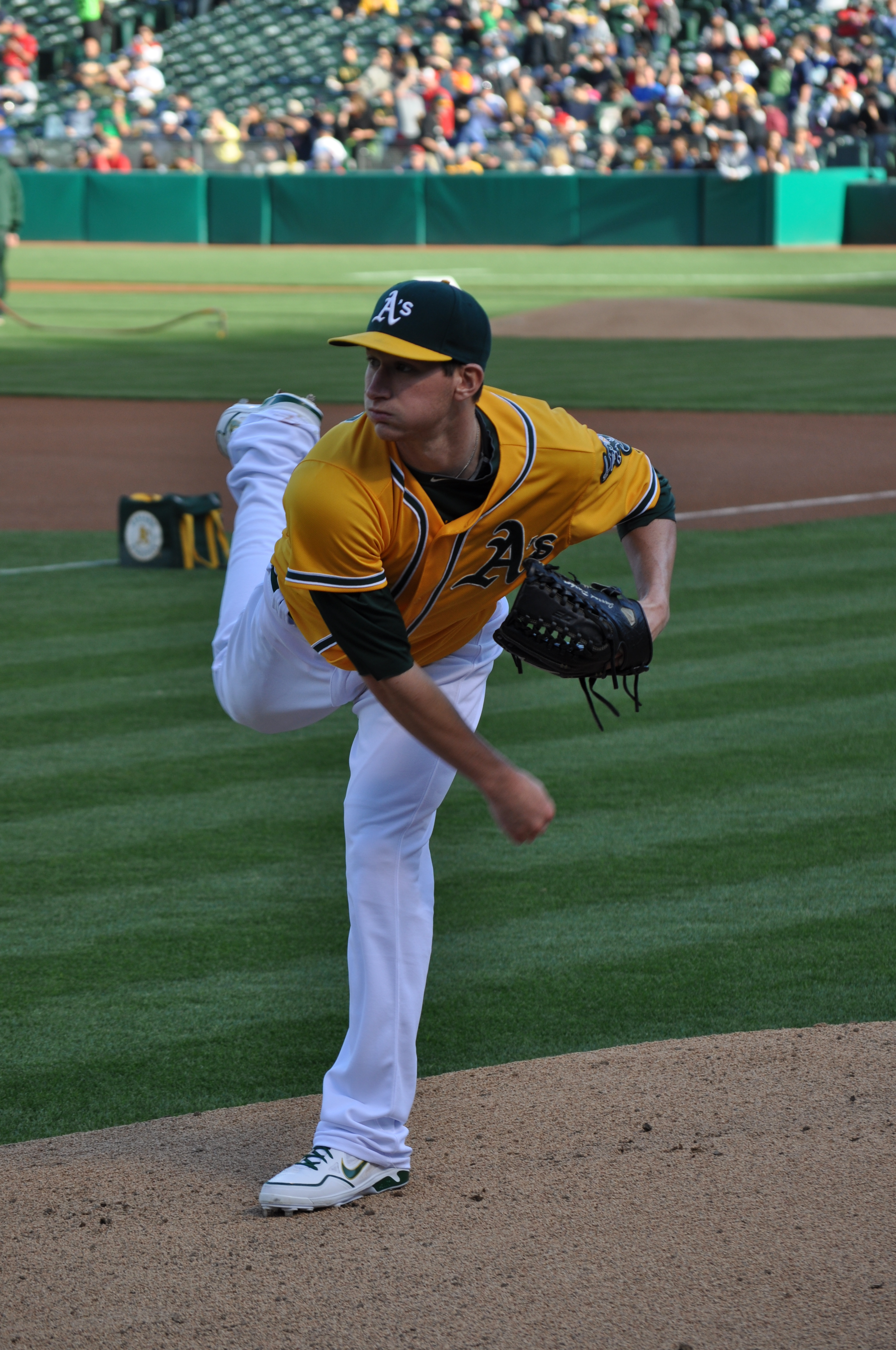 Jarrod warms up prior to his start against the Boston Red Sox on 7/2/12.